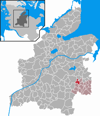 Locator maps of municipalities in Schleswig-Holstein - District Rendsburg-Eckernförde